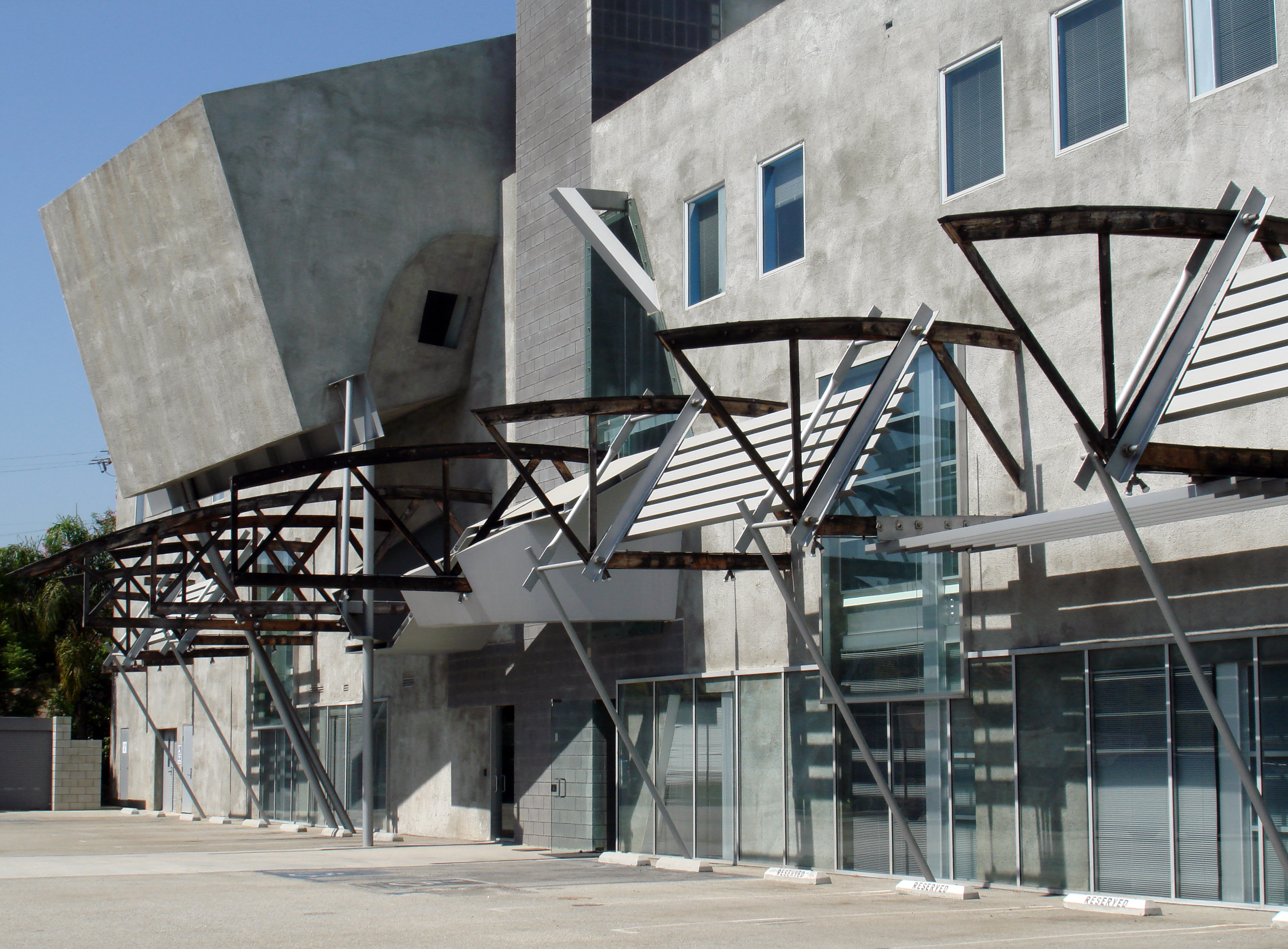 Hayden Tract, Culver City